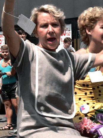 Former Chicago Mayor Jane Byrne, Chicago Gay Pride parade, June 1985